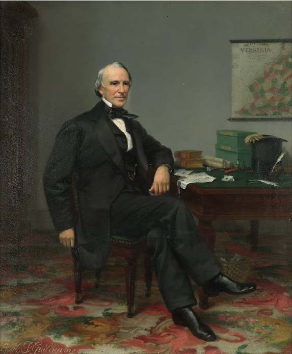 Wyndham Robertson by Louis Mathieu Didier Guillaume (French/American, 1816-1892)